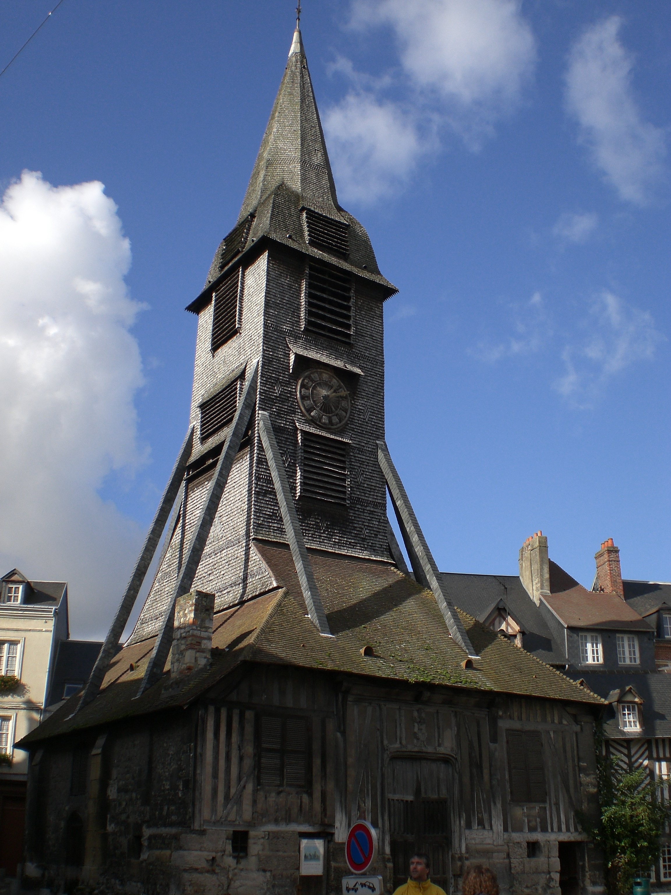 Tower at Honfleurs, Calvados, France